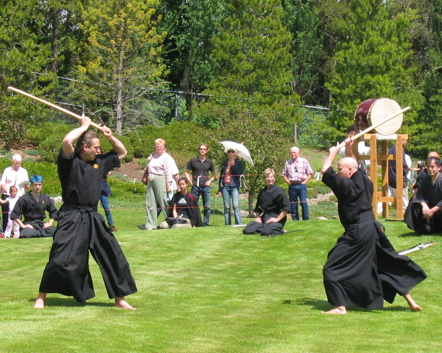 Kenjutsu at the Japanese Garden in Devonian Botanical Garden.